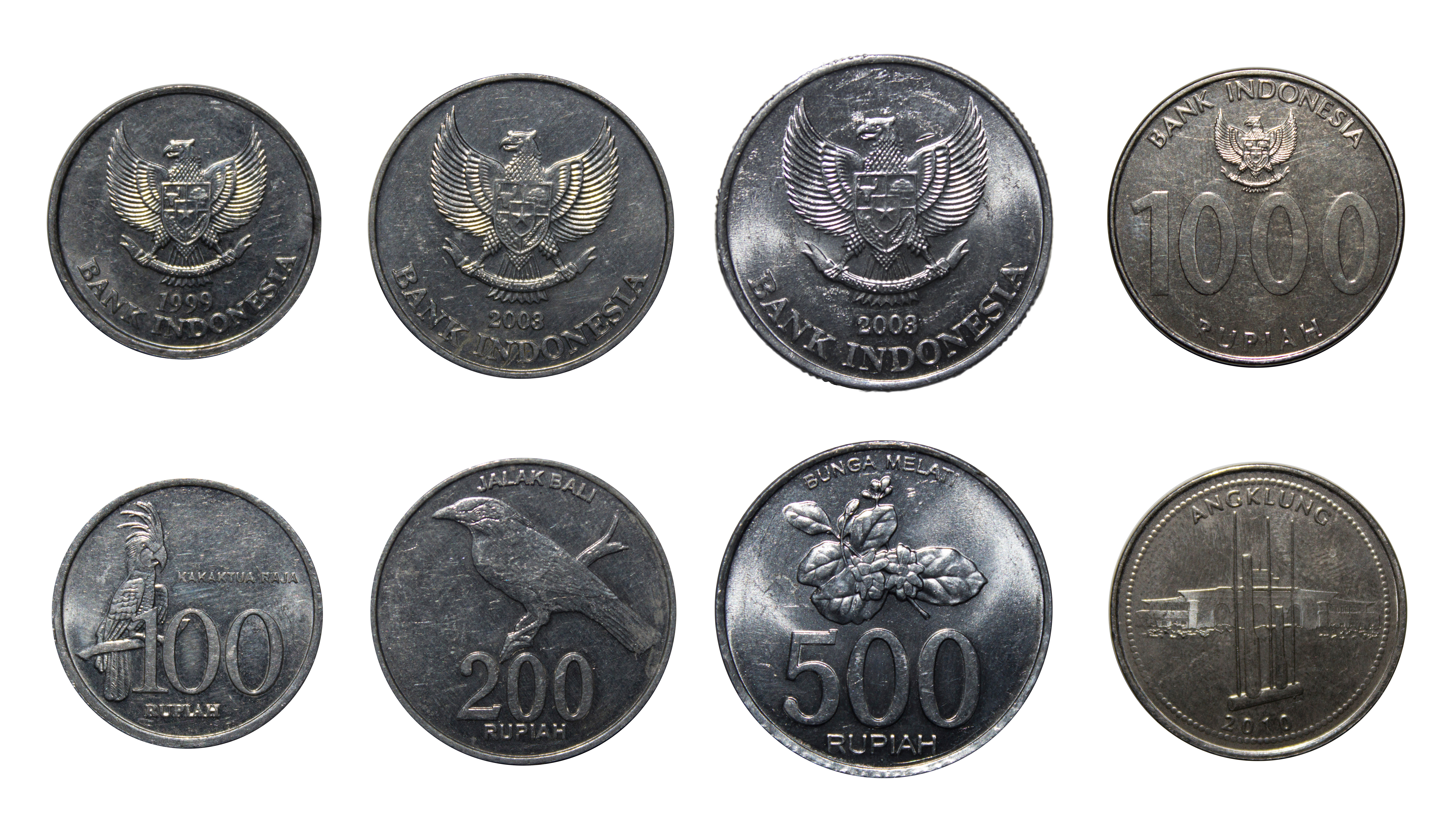 A complete set of the coins of the Indonesian rupiah, as of 2013